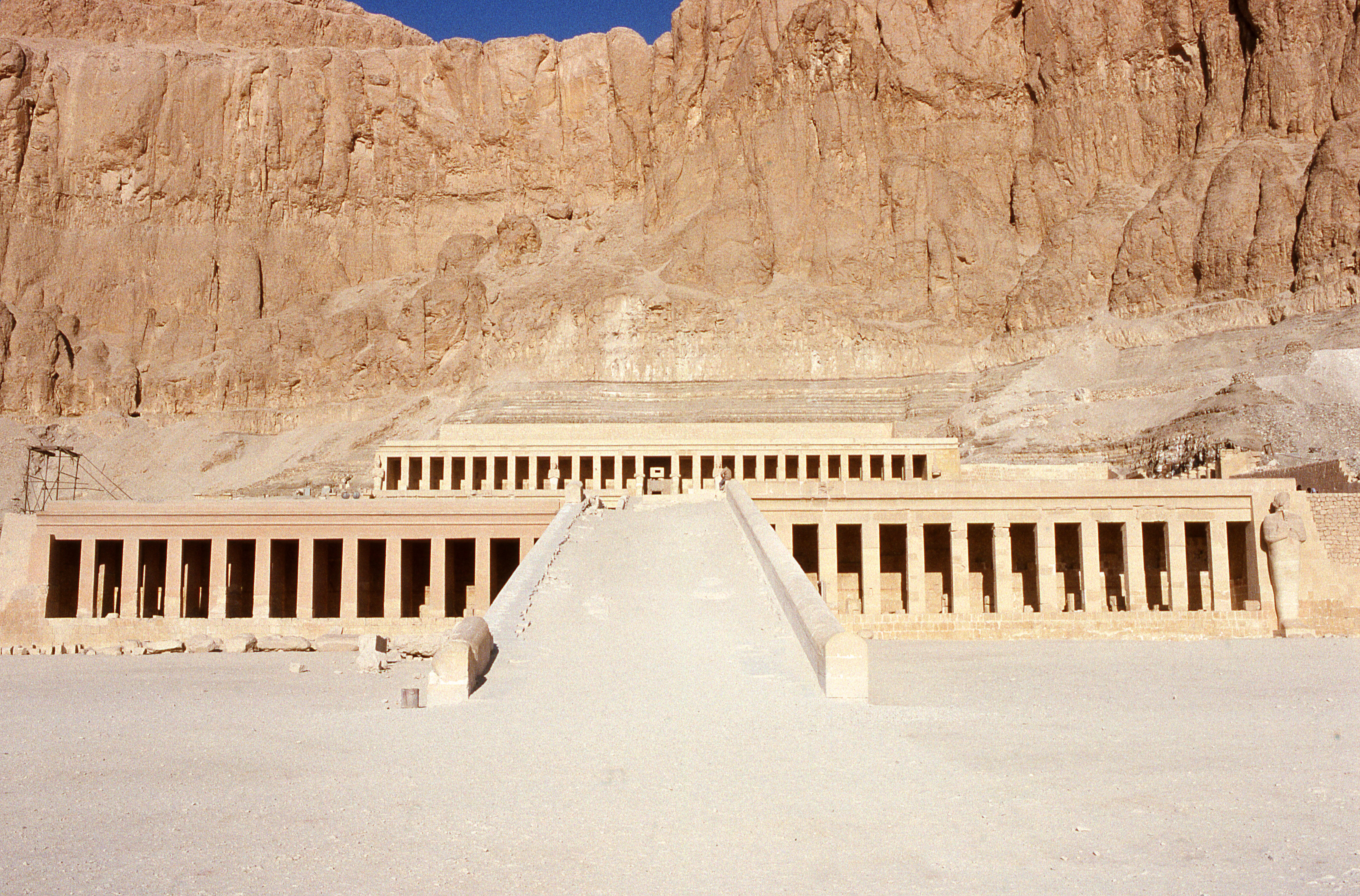 Mortuary temple of Hatshepsut in Deir el-Bahari, Egypt.